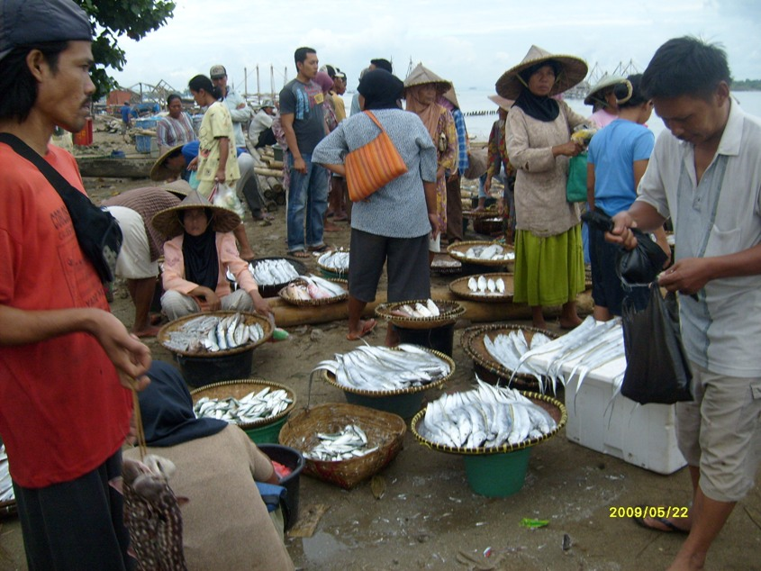 Fresh Fish Market at Sumur